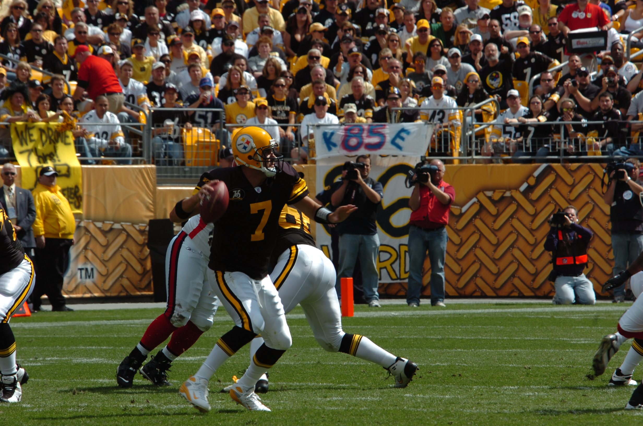 Ben Roethlisberger of the Pittsburgh Steelers - September 16, 2007. Wearing a 75th season throwback uniform vs the Buffalo Bills. Pittsburgh's 500th victory.